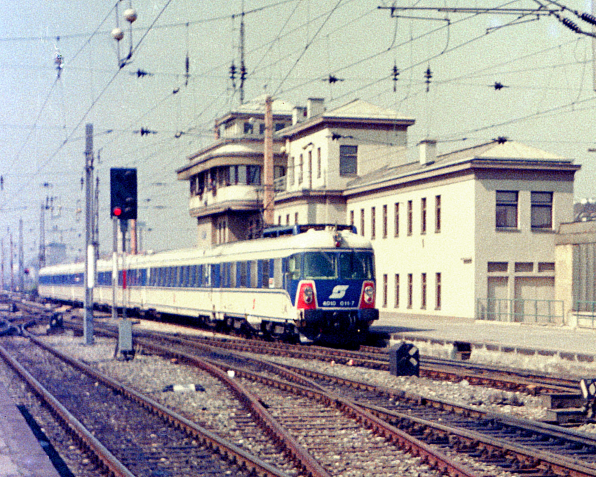 ÖBB 4010 011 passing the signalbox while entering Wien Südbahnhof.